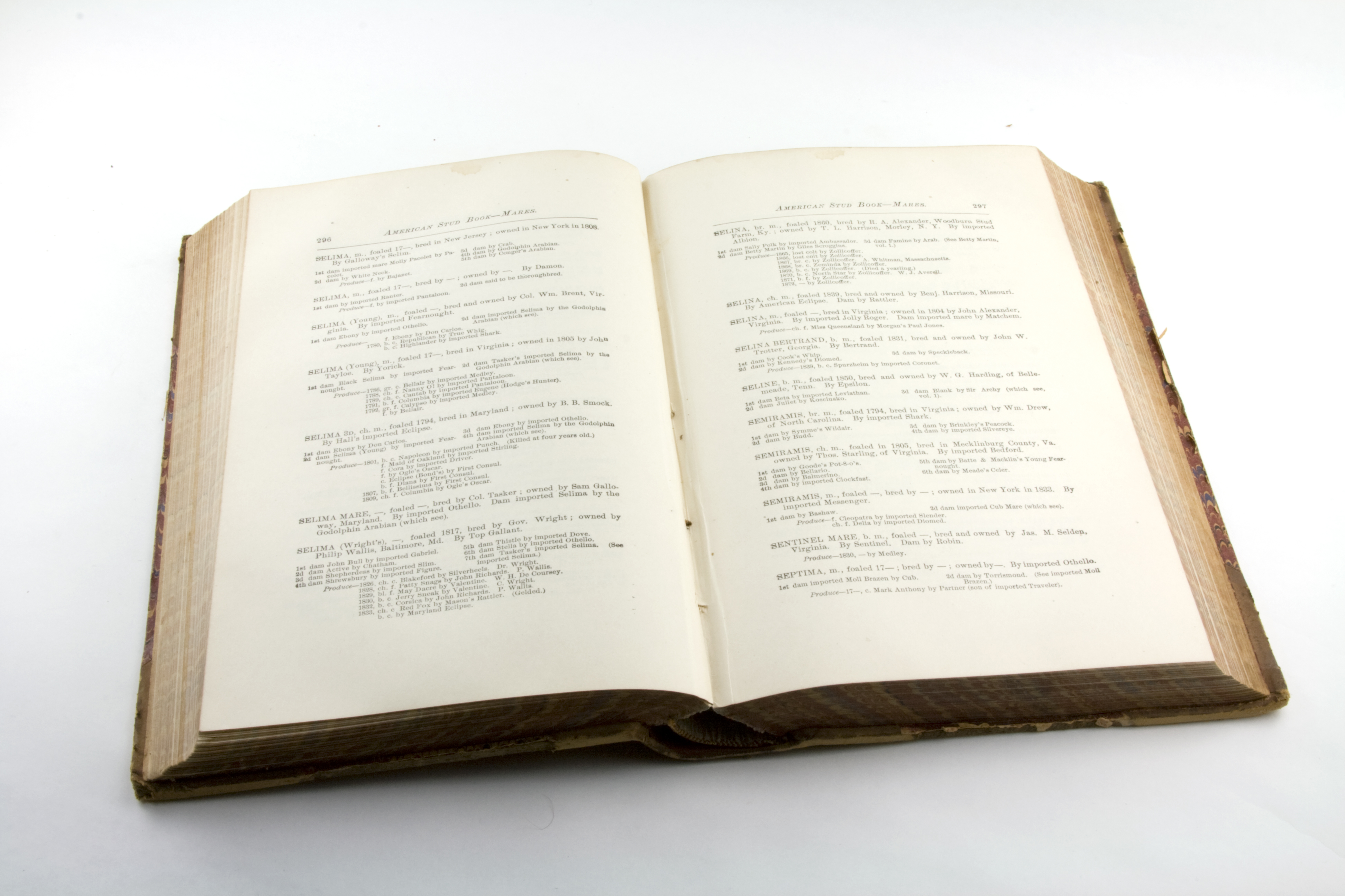 Volume Two of the American Stud Book, 1873, the stud book for American Thoroughbred horses